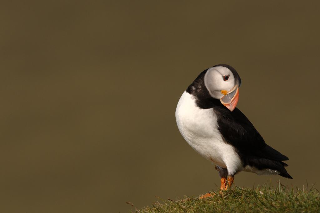 atlantic puffin